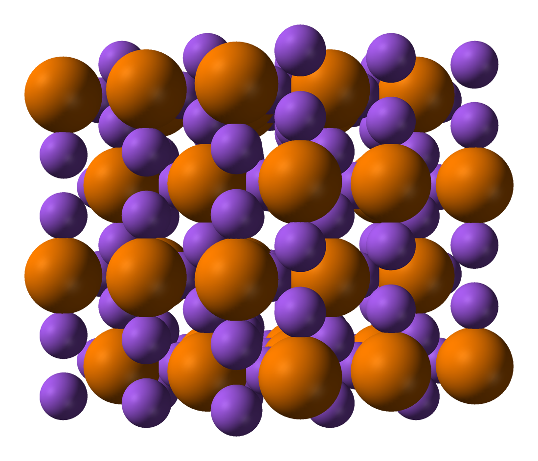 Space-filling model of part of the crystal structure of sodium phosphide, Na3P. X-ray diffraction data from Y. Dong and F. J. DiSalvo (November 2005). "Reinvestigation of Na3P based on single-crystal data". Acta. Cryst. E61 (11): i223-i224.